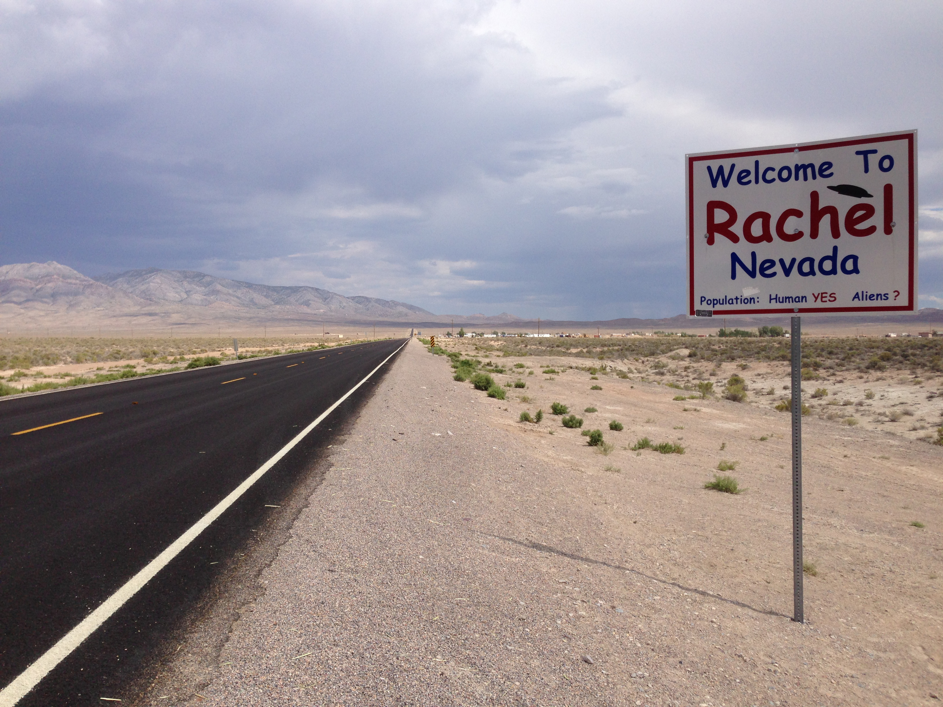 Sign for Rachel, Nevada along southbound Nevada State Route 375 about 8.9 miles south of the Nye County Line